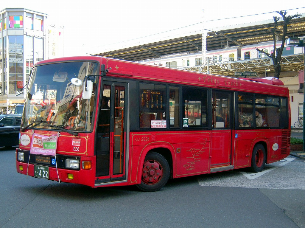 Tokyu bus Hino Rainbow HR (KK-HR1JKEE)